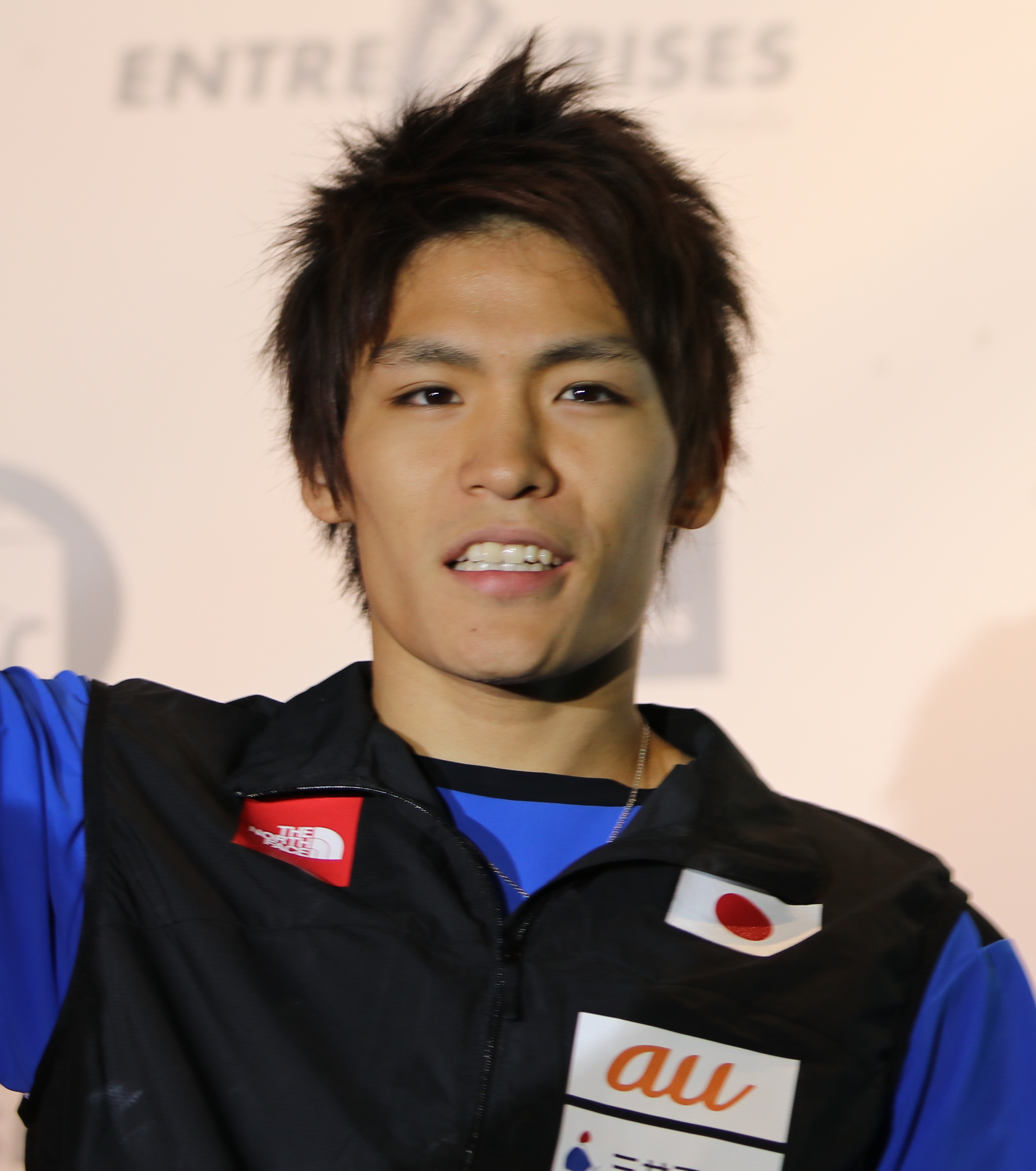 Tomoa Narasaki, sports climber from Japan, at the Boulder Worldcup 2017 in Munich, Germany